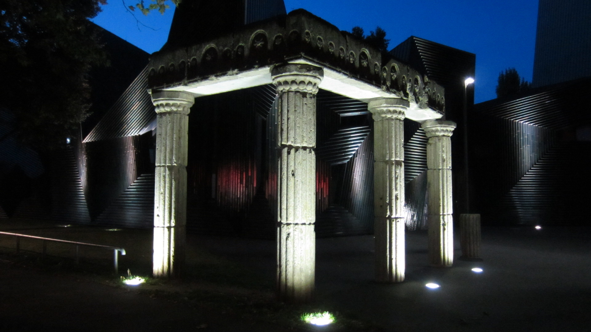 The illuminated fragments of the former Main Synagogue's columned hall at Hindenburgstraße, Mainz-Neustadt. Mainz's former Main Synagogue was built 1910-12 by architect Willy Graf from Stuttgart, burnt down by SS troups during the 1938 Novemberpogrome on 10 November and blasted on 17 November by order of the public construction authority. The fragments were set up as a memorial in 1988 at Hindenburgstraße 44 (todays Synagogenplatz) and restored during the construction of the New Synagogue in Mainz, that can be seen in the background.